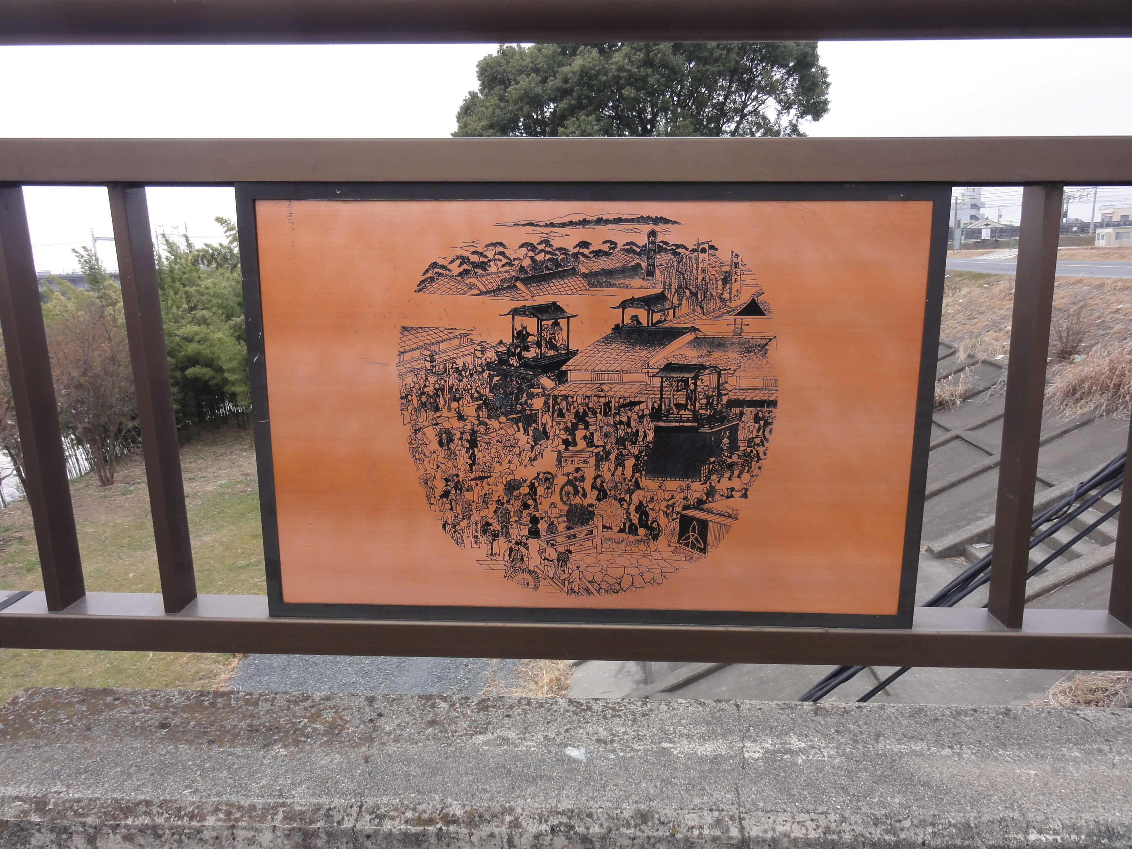 Biwajima-bridge(picture),Aichi Pref., Japan